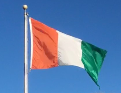 Flag of Côte d'Ivoire, on flagpole at the International Linguistic Center in Dallas, TX